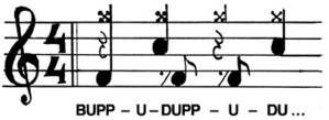 Informational public domain musical notation. No copyright is held to musical notation. Source; Originally uploaded to by admin "rachelc"